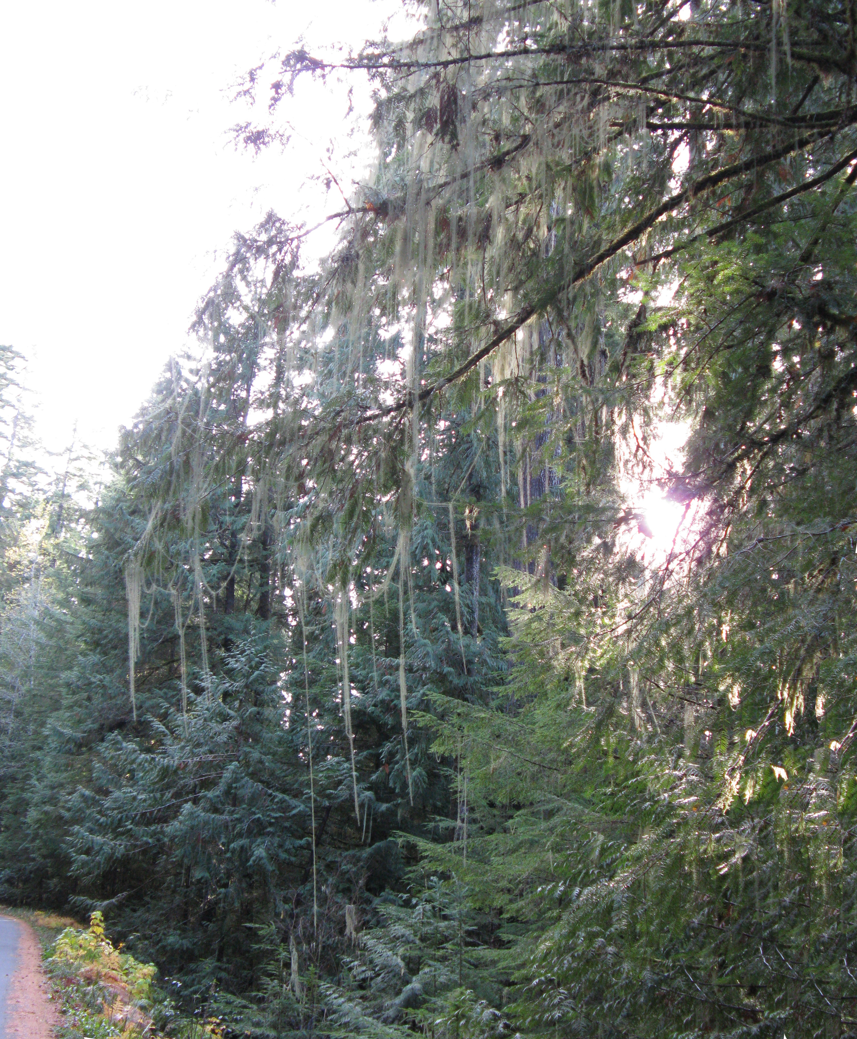 Dolichousnea longissima, showing a remarkably stalk-and-leaf-like structure for a fungal growth, plus the multi-metre length of the cords